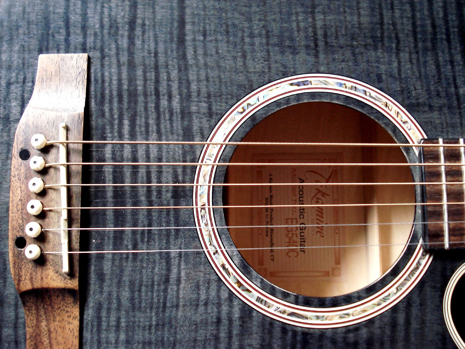 Takamine EG540C-STCY sound hole Acoustic sound